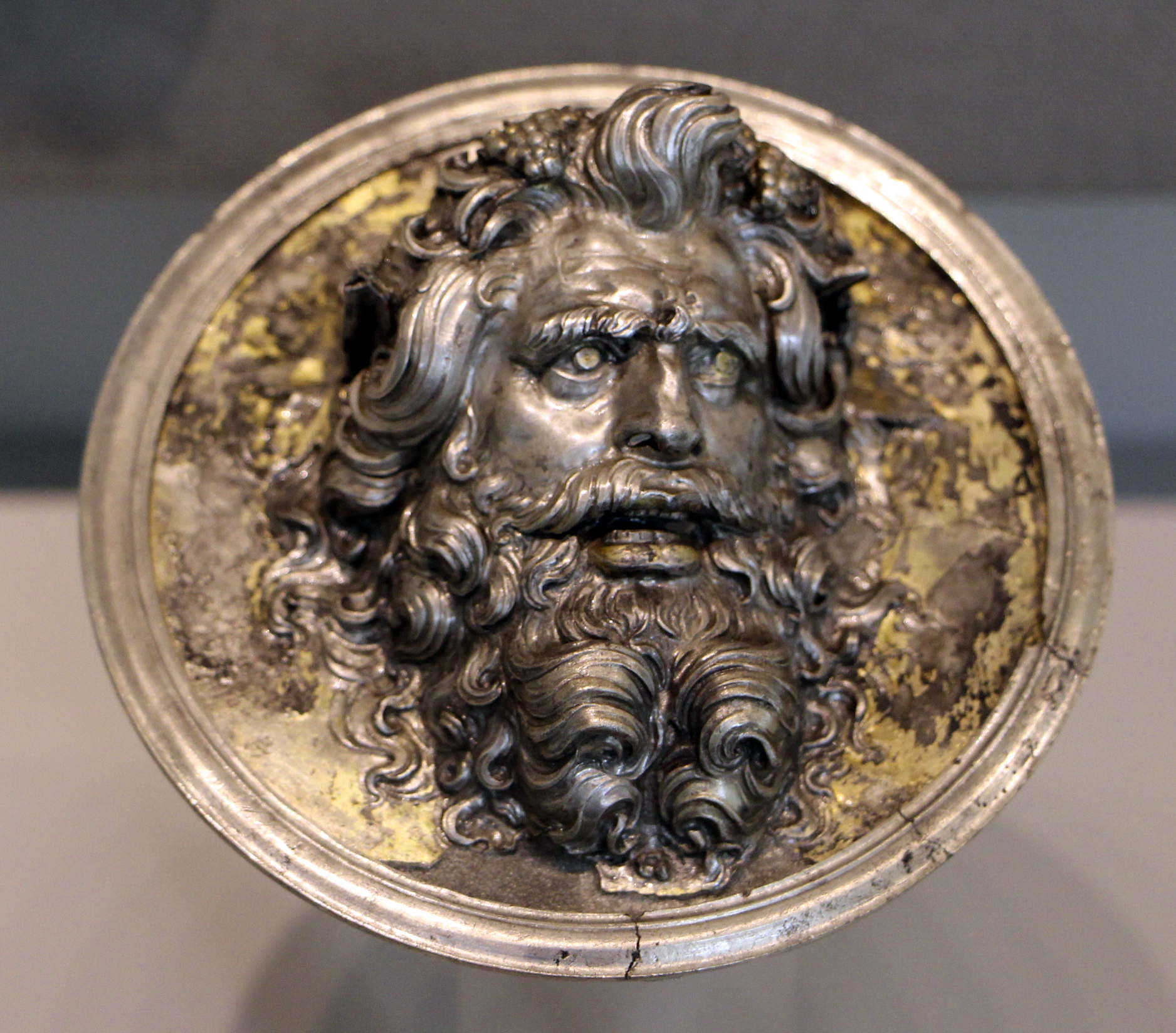 Ancient Greek jewellery in the Antikensammlung Berlin